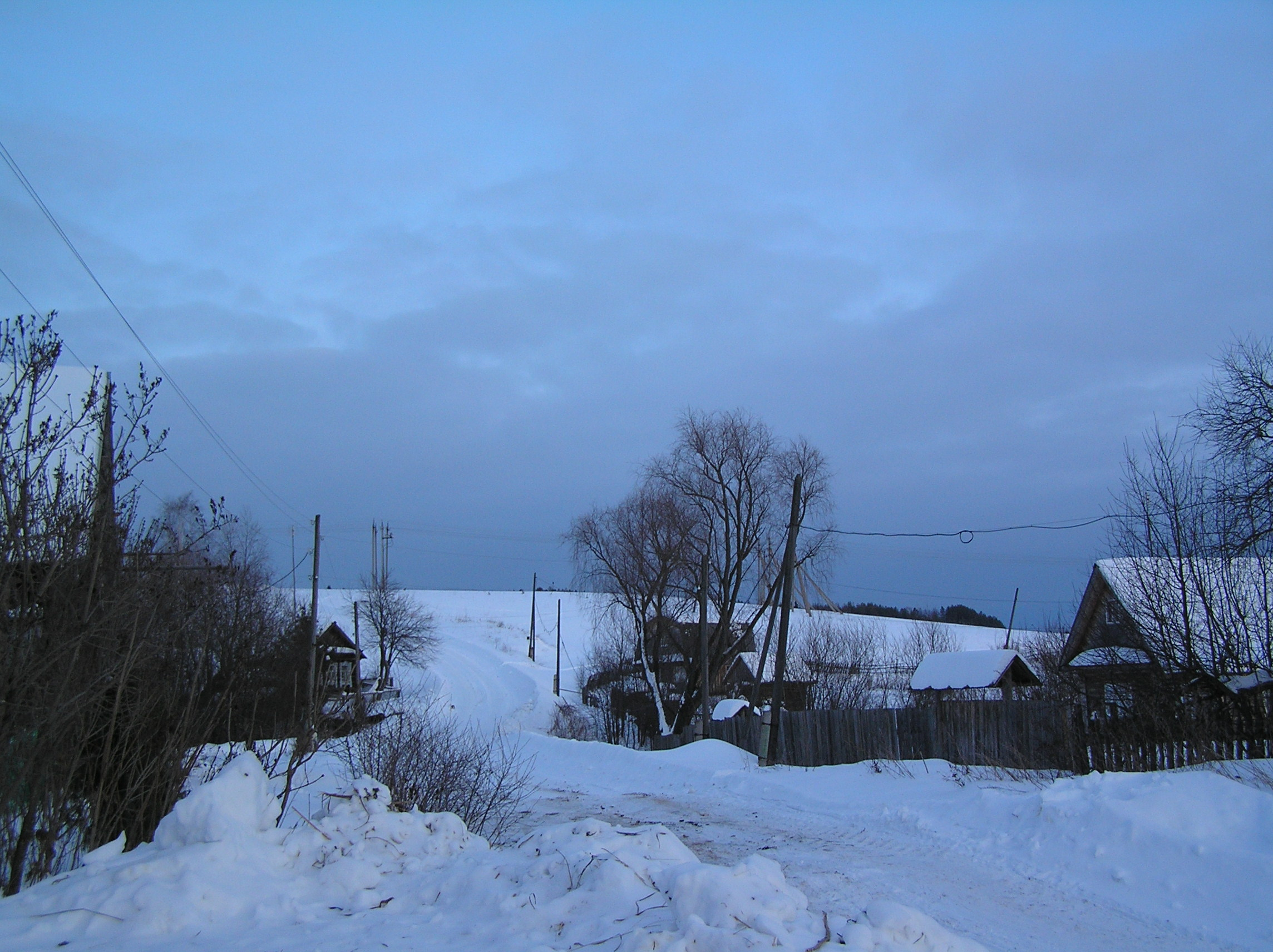 Kolyshevo